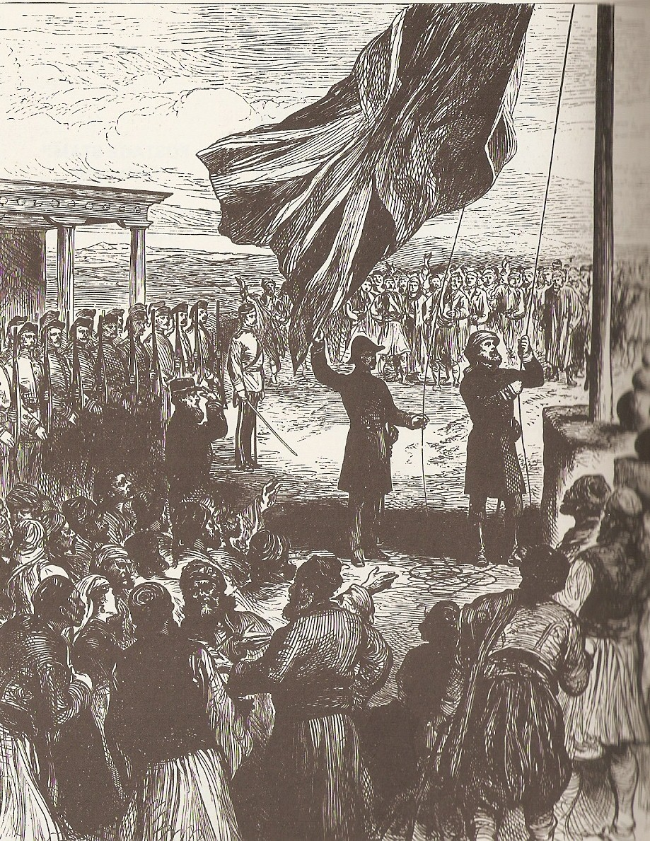 Hosting the British flag at Nicosia on 12th July, 1878. the ceremony took place in the yard of Turkish Barracks (Kışla) on Tripoli bastion, attached to the buildings over Paphos gate.